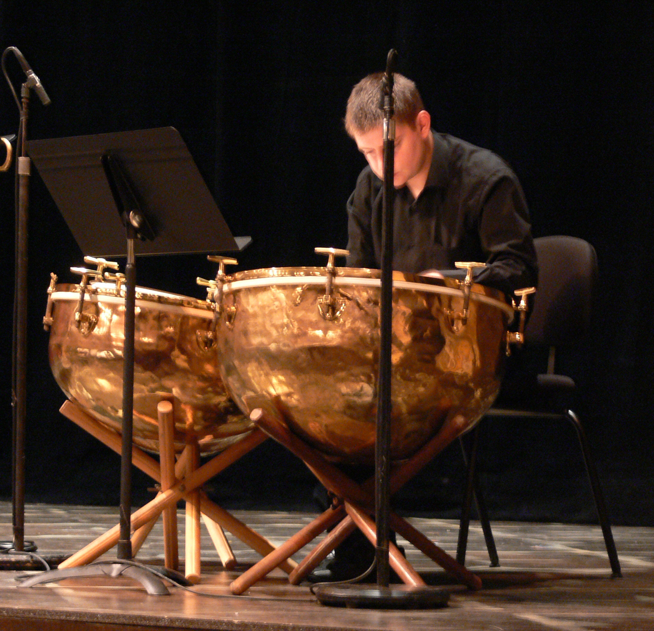 Timpanist of the "Cercle de l'Harmonie" (a French HIP orchestra) tuning his timpani, during intermission of a concert at the Opéra-Comique (Salle Favart), Paris